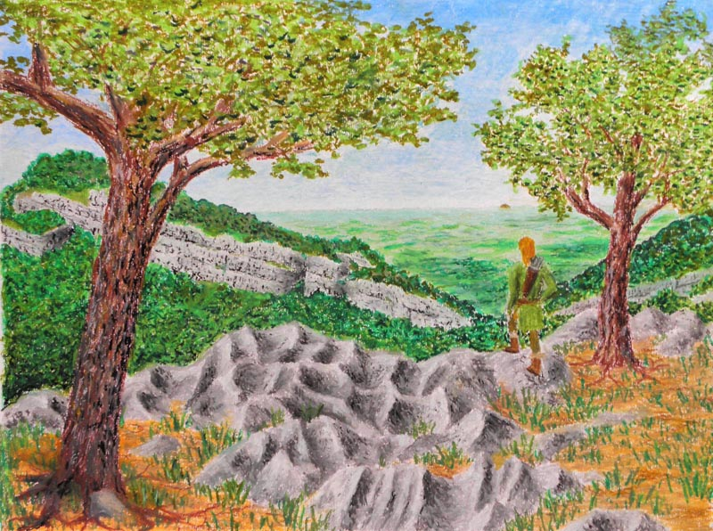 Taur-en-Faroth, high woodland above Nargothrond